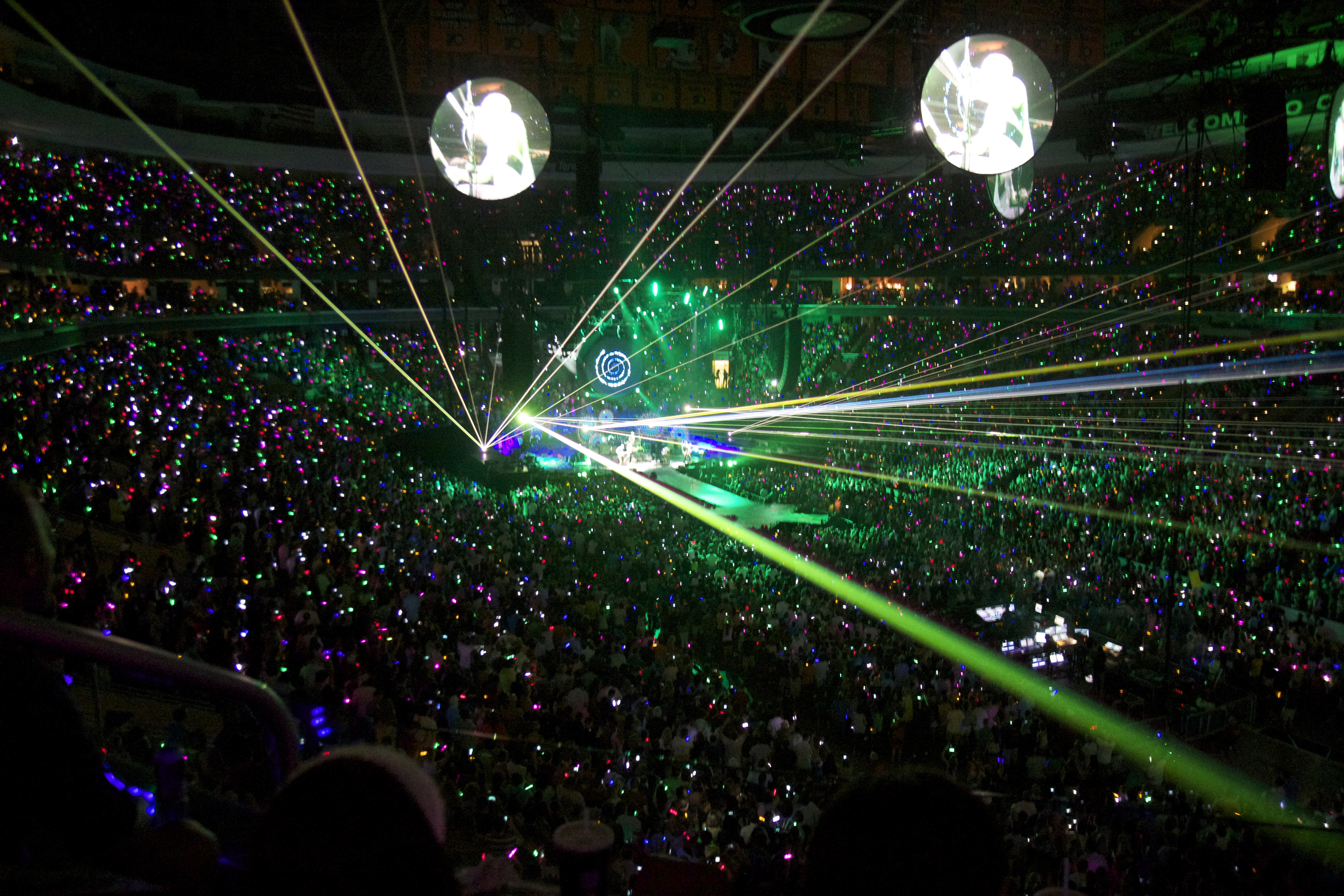 Coldplay performing at the Wells Fargo Center in Philadelphia, Pennsylvania on July 6, 2012.